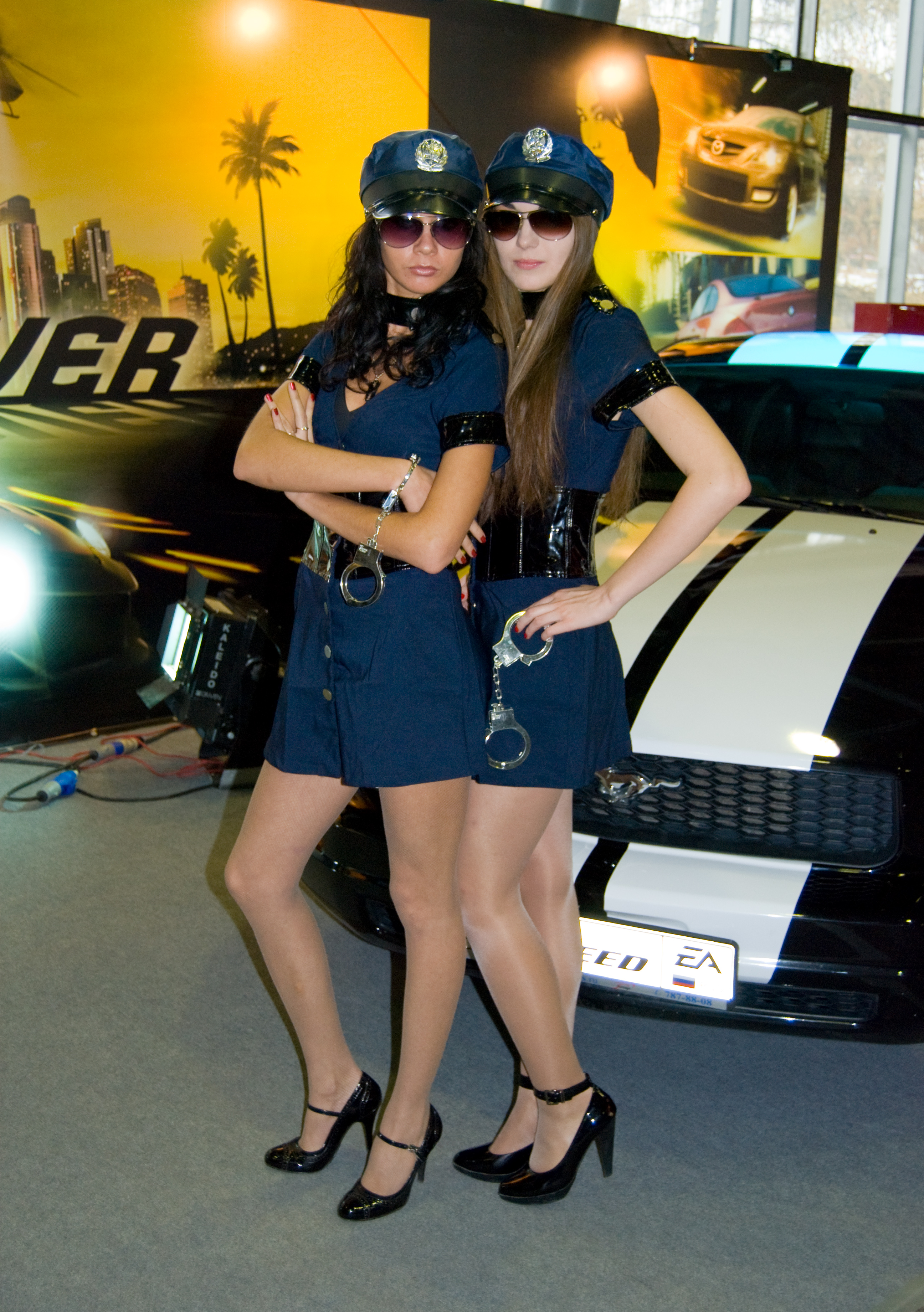 NFS Undercover booth-babes of Igromir 2008